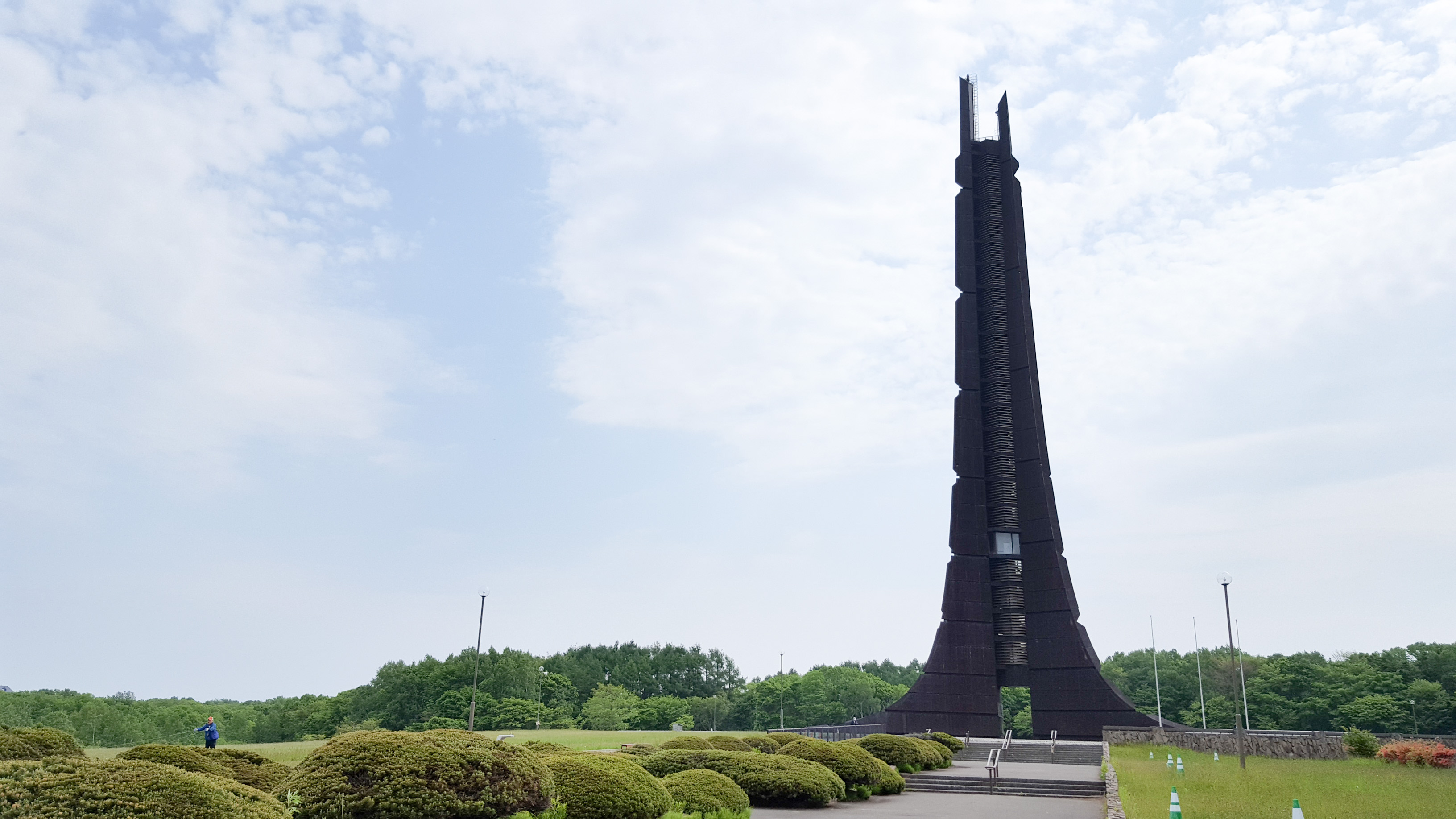 Centennial Memorial Tower in Editing Nopporo Shinrin Kōen Prefectural Natural Park, Sapporo, Japan